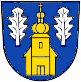 Coat of Arms of Heuthen